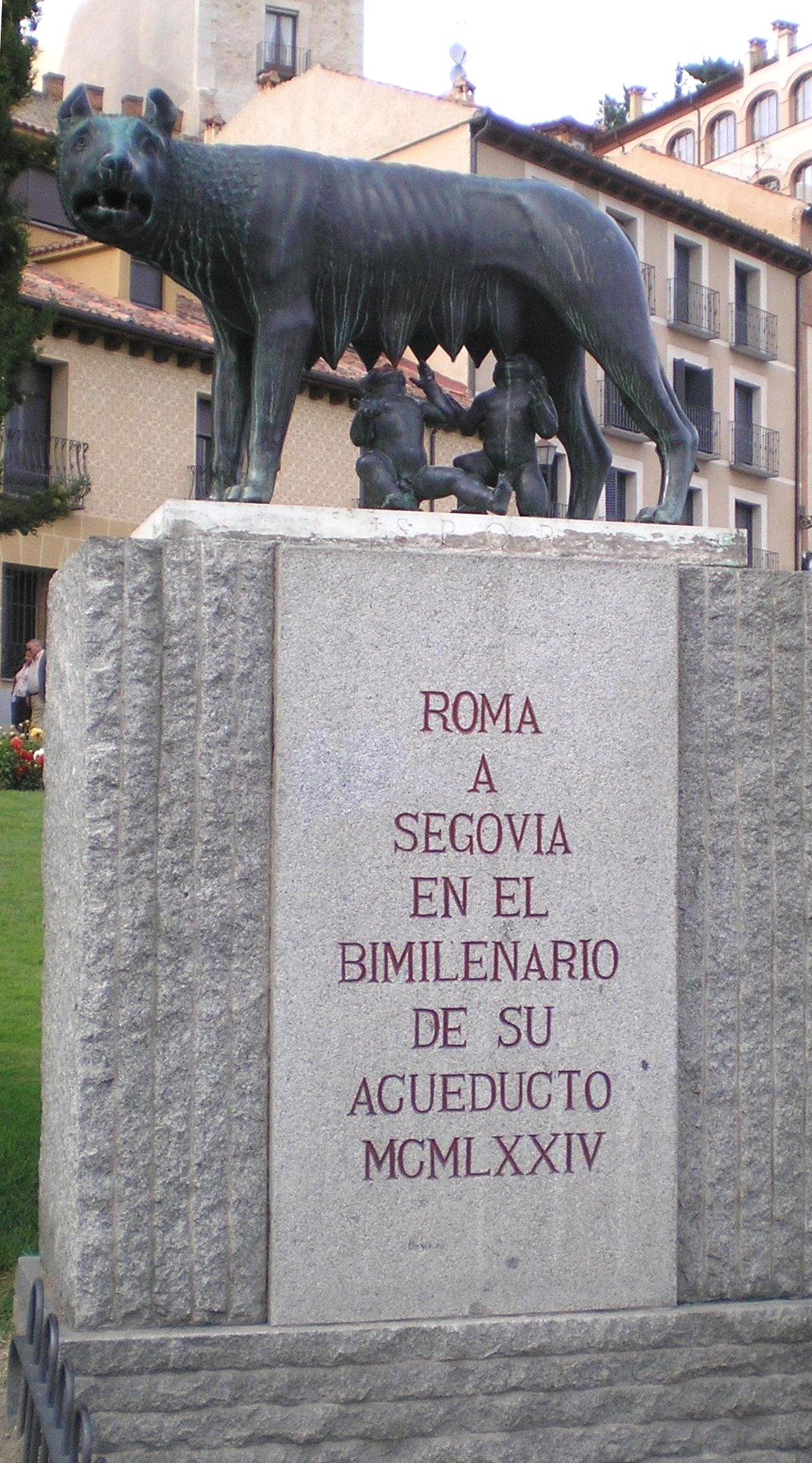 Rome's present to Segovia in the 2000th anniversary of the aqueduct.